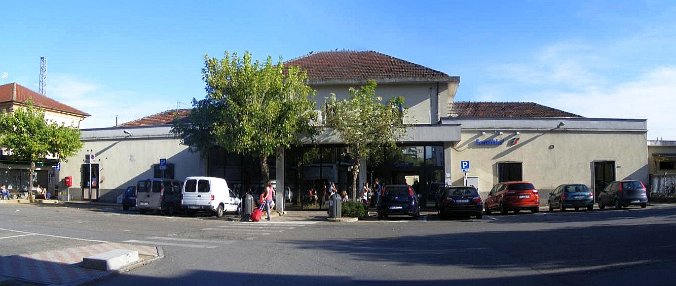 Santhià railway station from outside (VC, Italy)